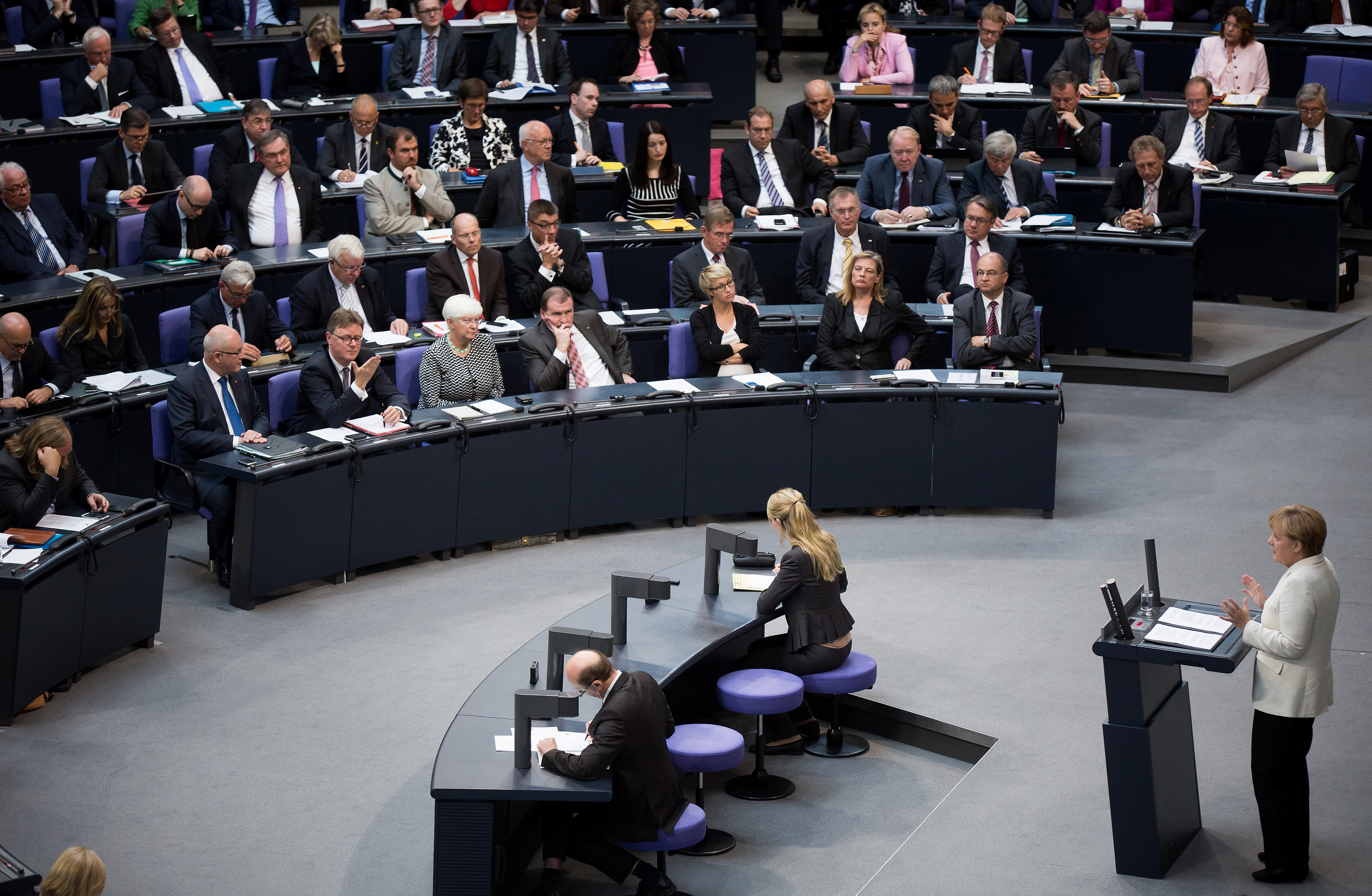 Picture taken during Wikipedia Bundestag project 2014. CDU/CSU-Bundestagsfraktion with Angela Merkel.